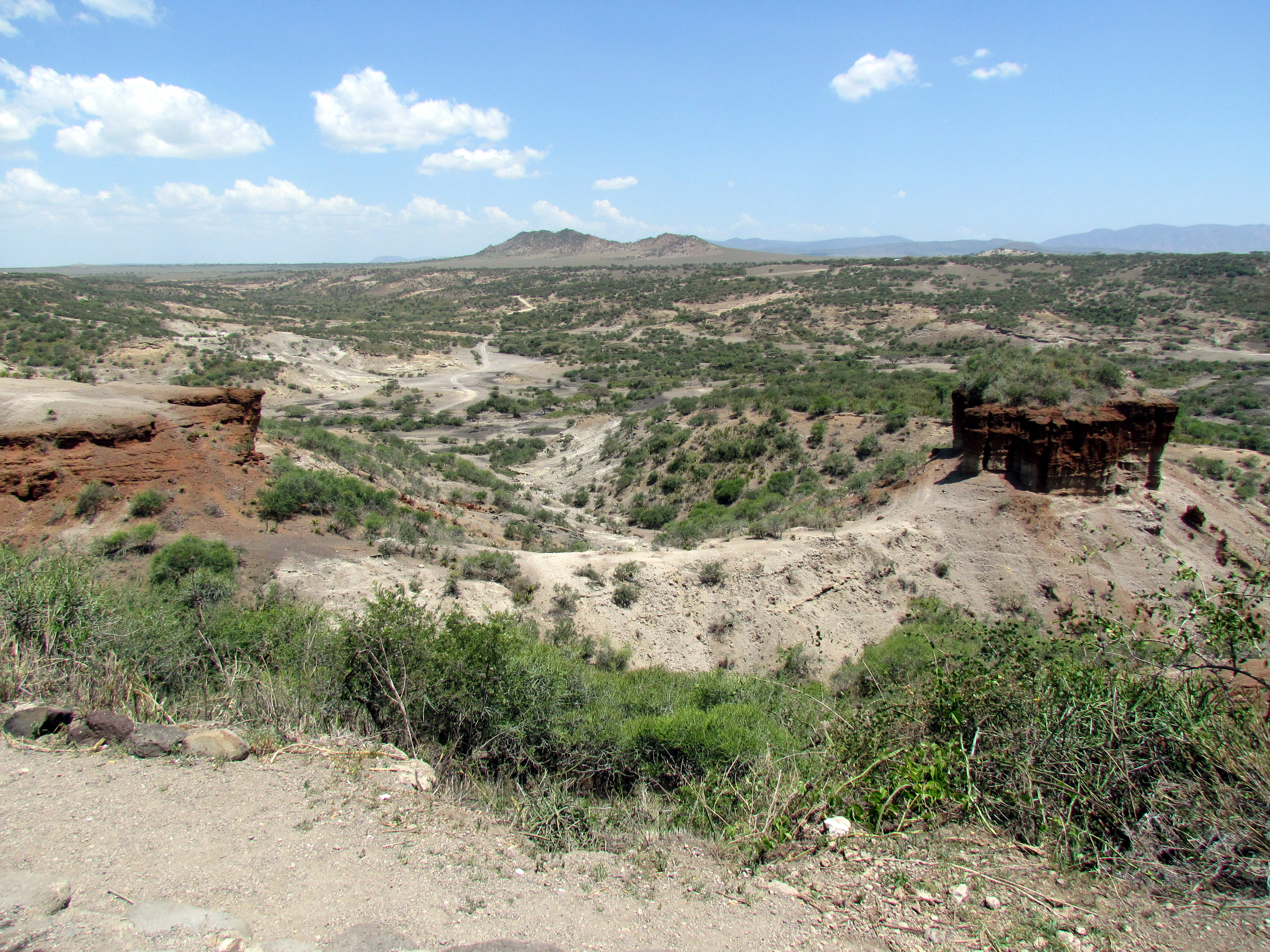 Olduvai Gorge - Ngorongoro - Tanzania, Africa